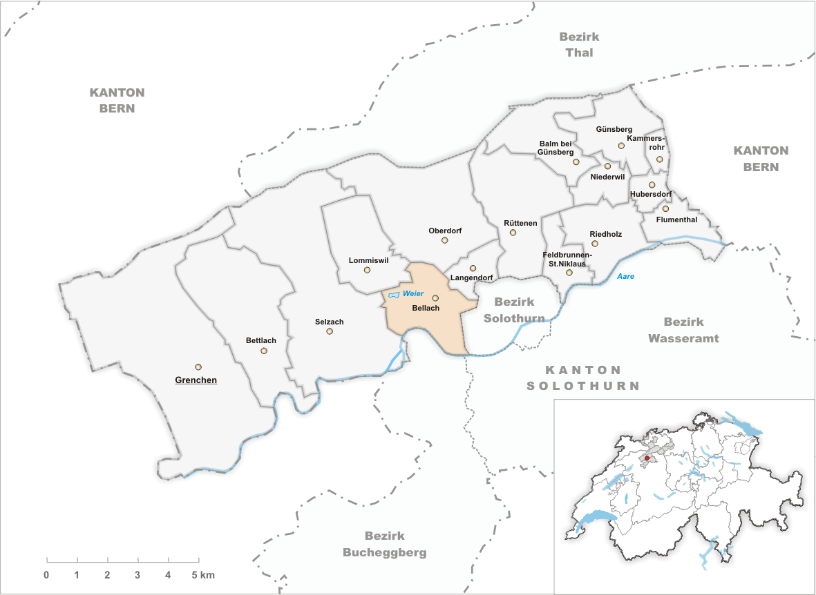 Municipality Bellach